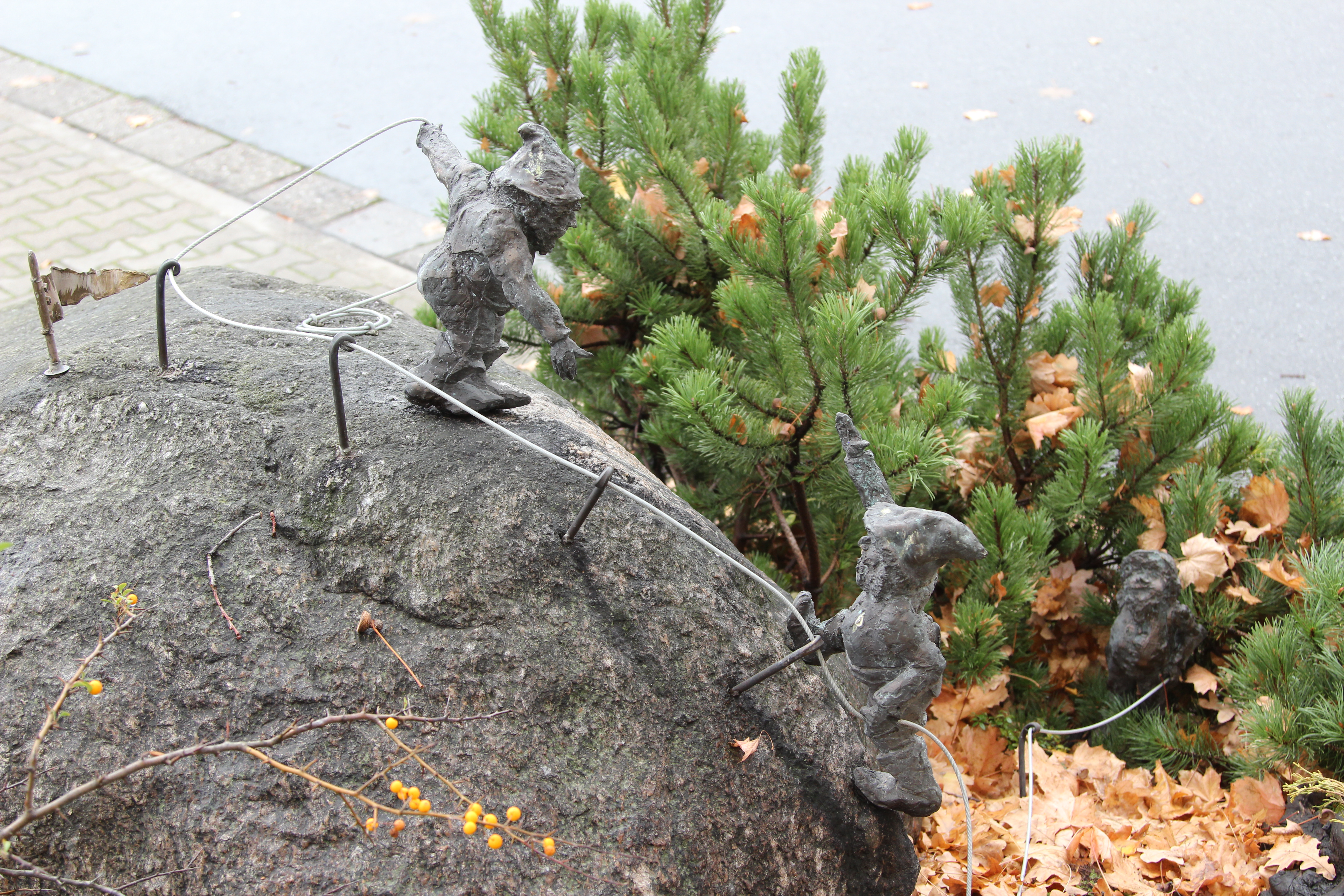 Alpinists (Alpinki) Głazek, Rutek i Zarembek in Wrocławski Park Biznesu on Strzegomska 46 -56.